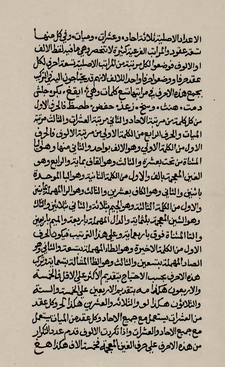 Second page of a manuscript of the book Kašf al-haqā’iq fī hisāb al-daraj wa-al-daqā’iq (Facts on the Calculation of Degrees and Minutes)